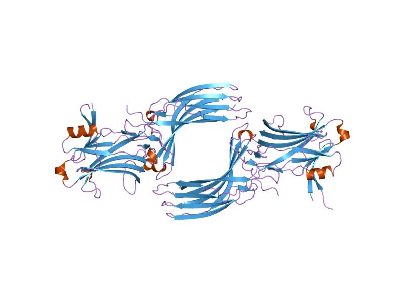 Cartoon representation of the molecular structure of protein registered with 1g4m code.